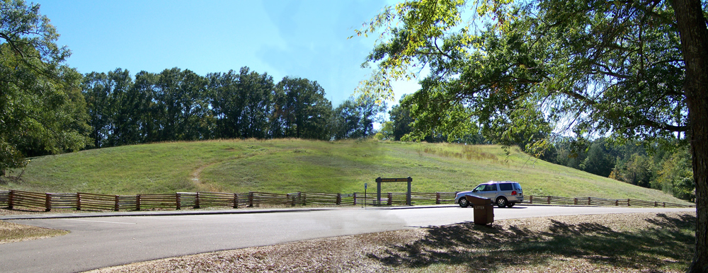 A photo of the Mangum Mound, a Foster Phase Plaquemine culture burial mound located at milepost 45.7 on the Natchez Trace Parkway. Taken on October 17th, 2011.